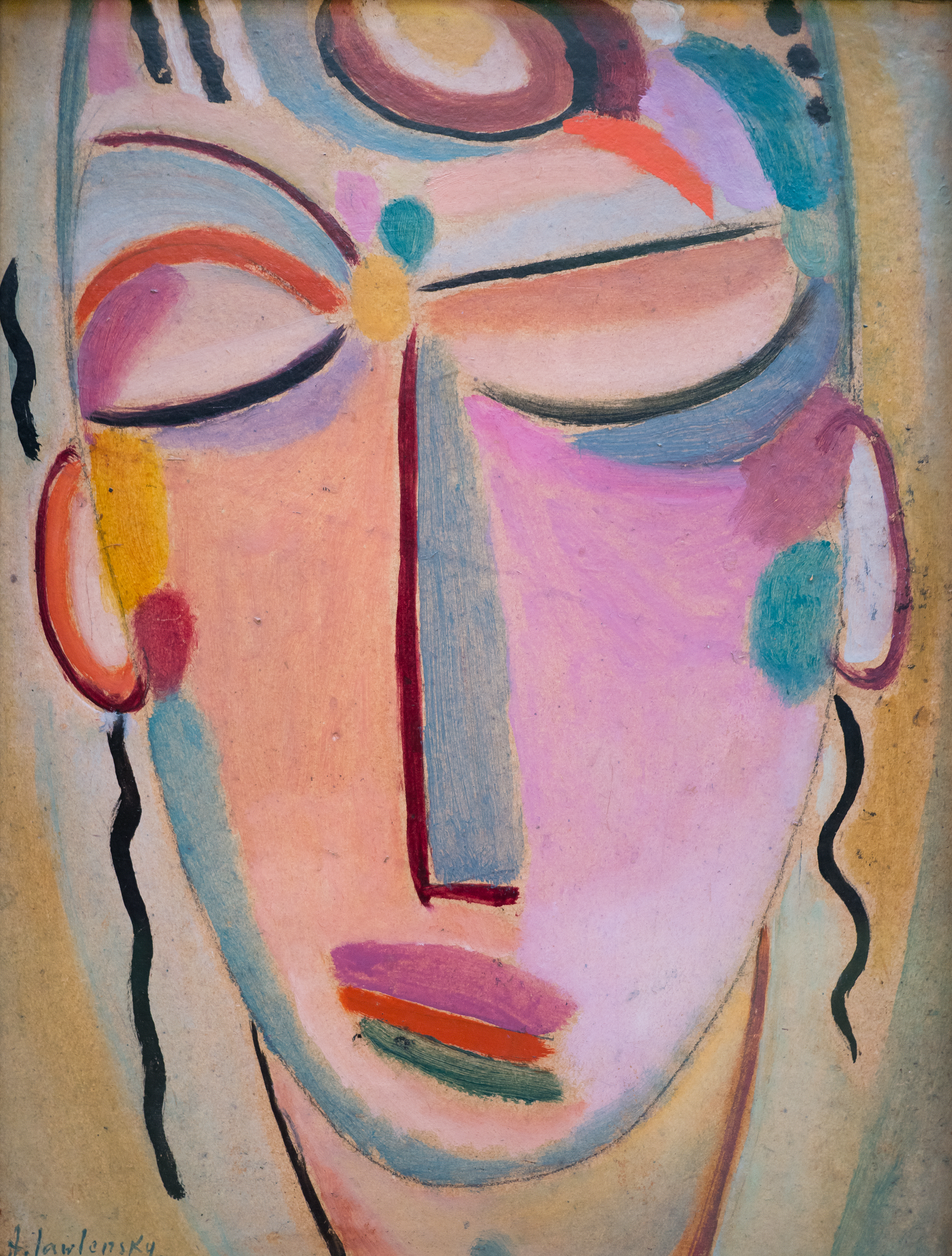 Meditation